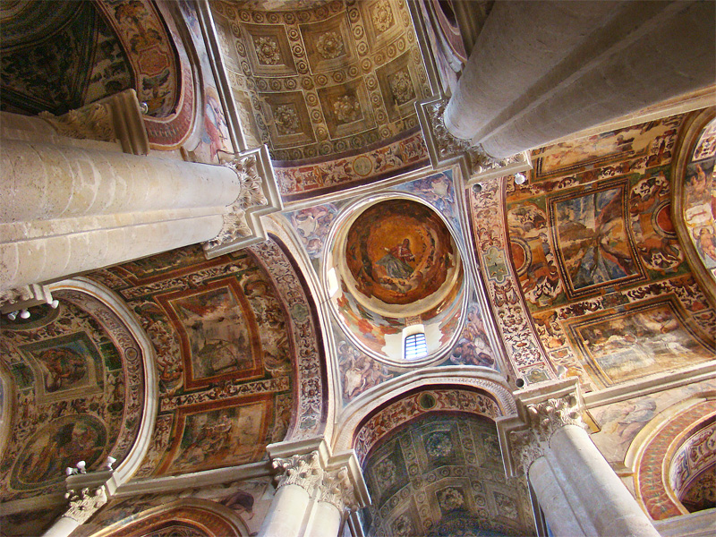 Church of San Niccolò and Cataldo, Lecce, Apulia, Italy. Vault at the transept crossing.